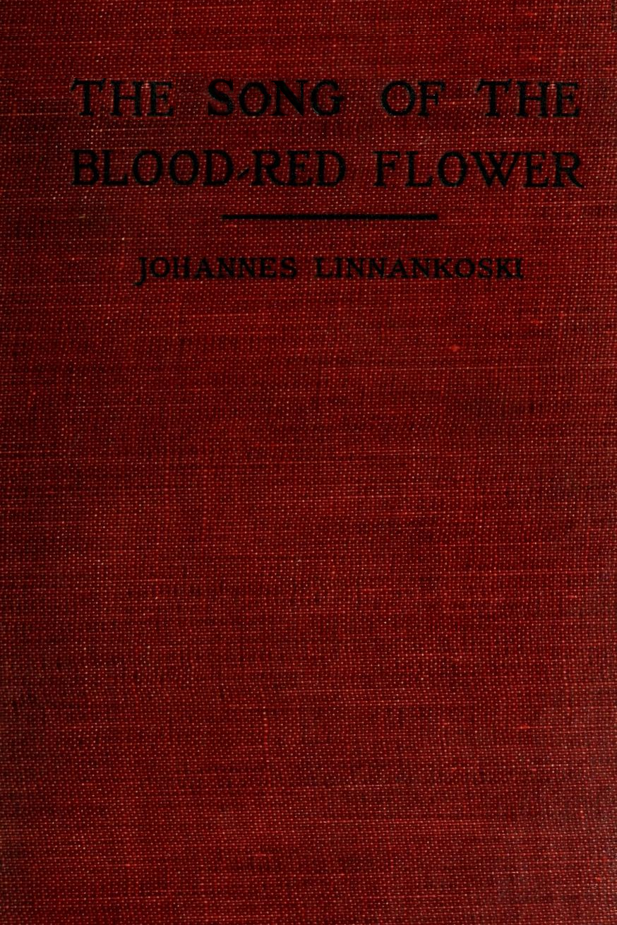 Blank back cover to The Song of the Blood-Red Flower by Johannes Linnankoski